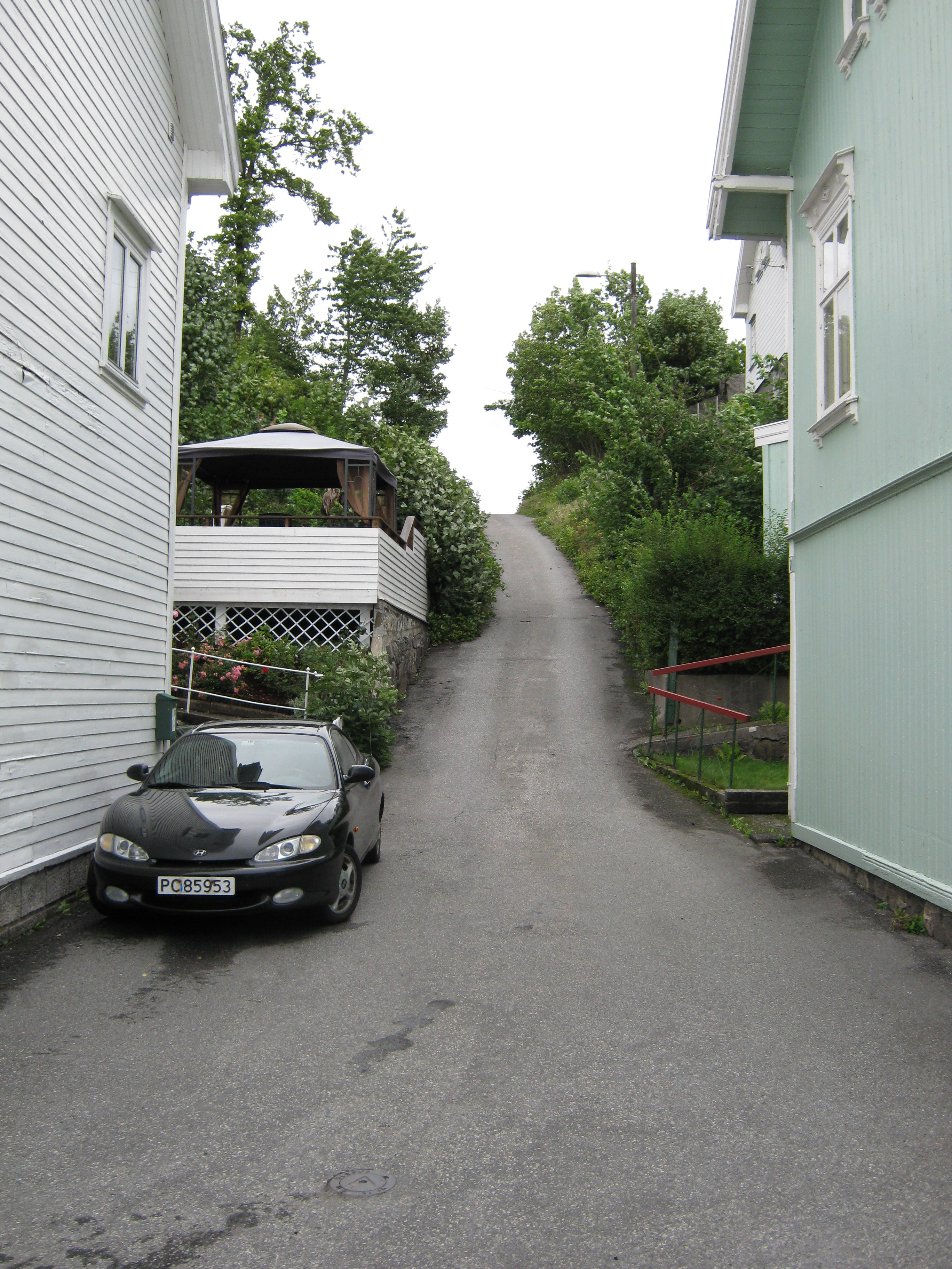 Tvillingbakken in Arendal, Norway